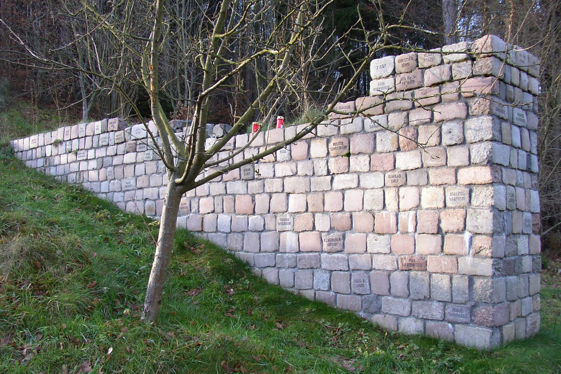 AIDS memorial: 'Nature Fort' — by Tom Fecht (1994). 'Land art' piece in Gleichen in Lower Saxony, Germany.